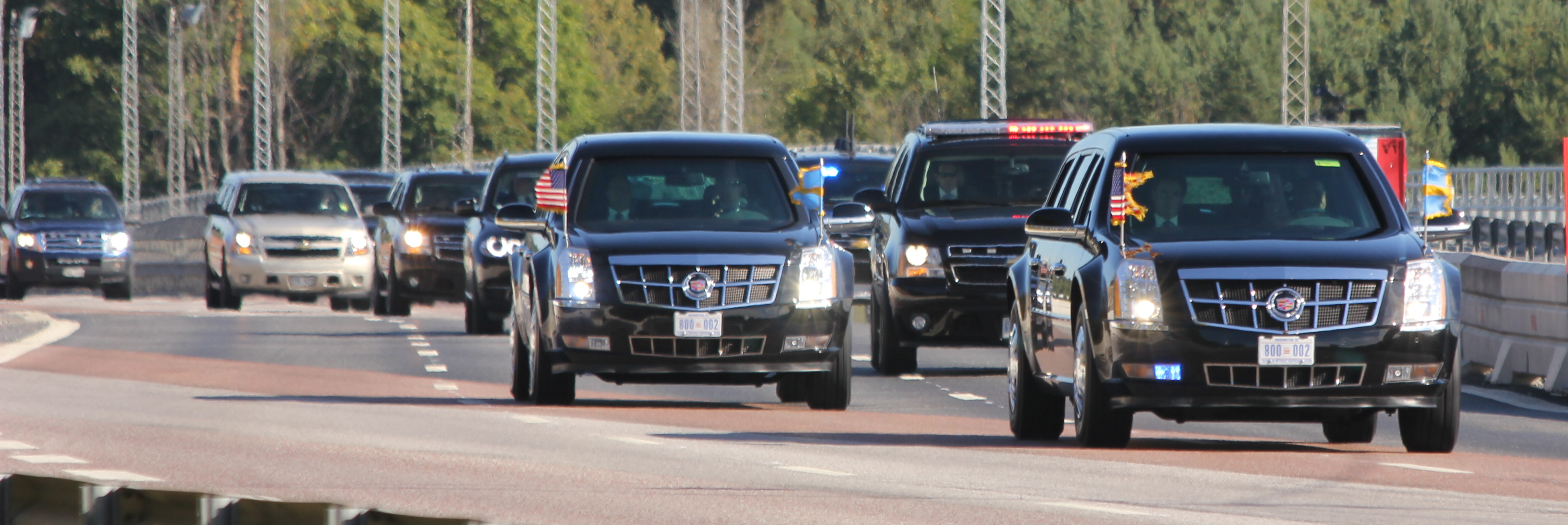 The Obama Motorcade